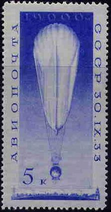 Old stamp showing USSR-1 stratospheric research aerostat "19000 m 30.IX.1933 5 K"